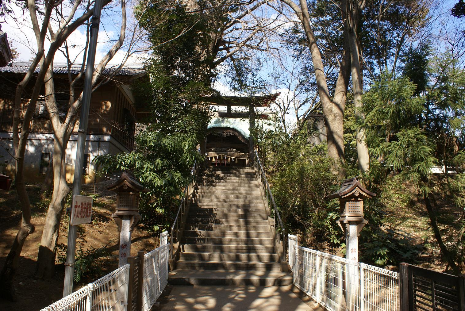 Ninomiya-Shrine, Funabashi, Chiba, Japan